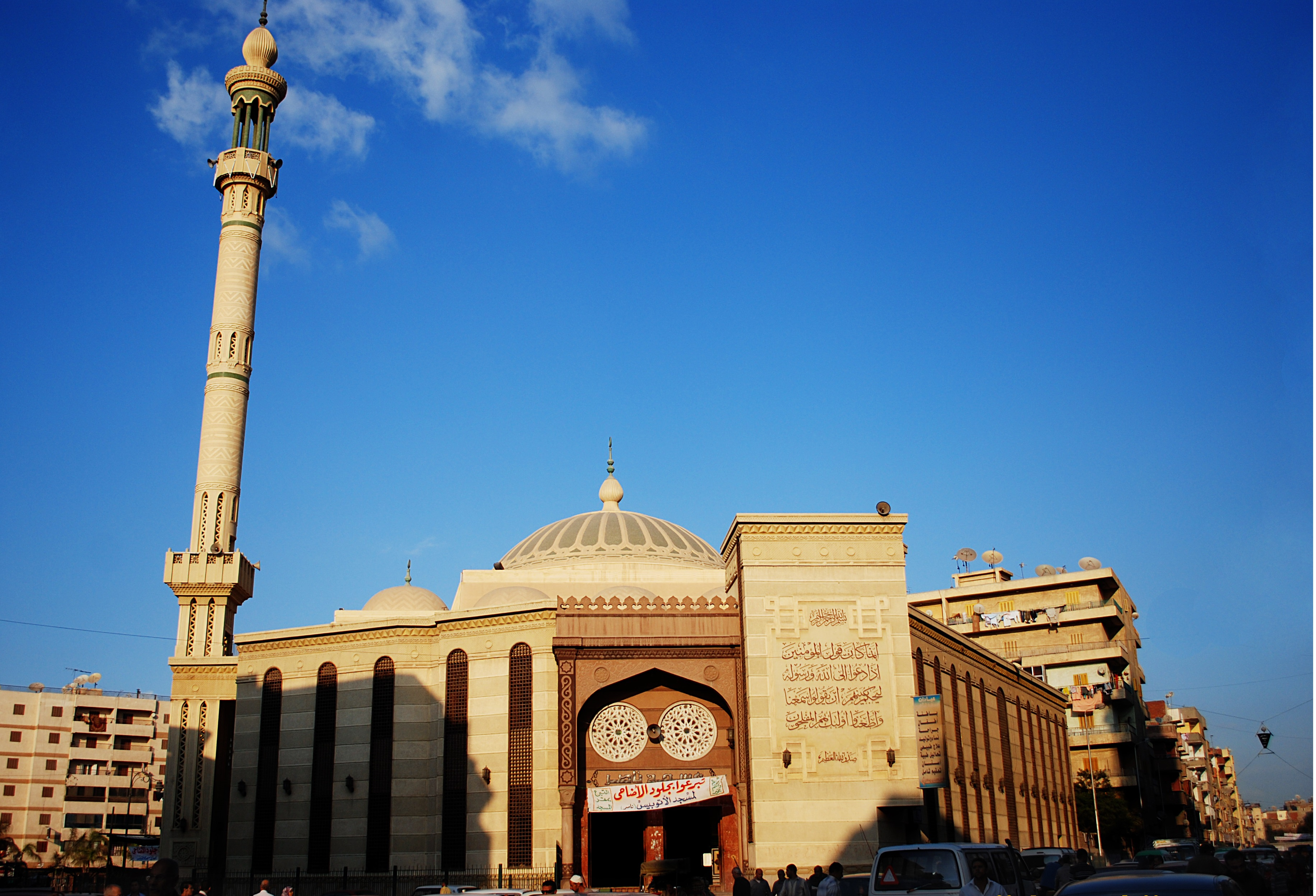 مسجد ناصر او كما يطلق عليه مسجد الاتوبيس هو احد اكبر المساجد بمدينة دمنهور عاصمة محافظة البحيرة